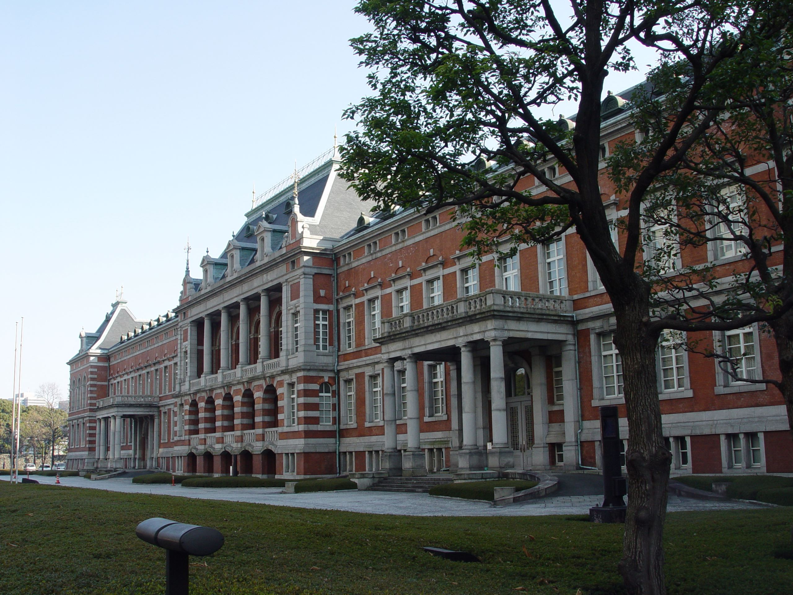 One of the public office buildings of the The Ministry of Justice, Japan 法務省庁舎